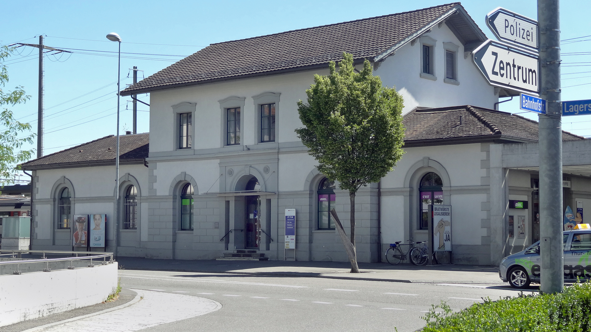 Main building of the trainstation in Weinfelden, Switzerland.